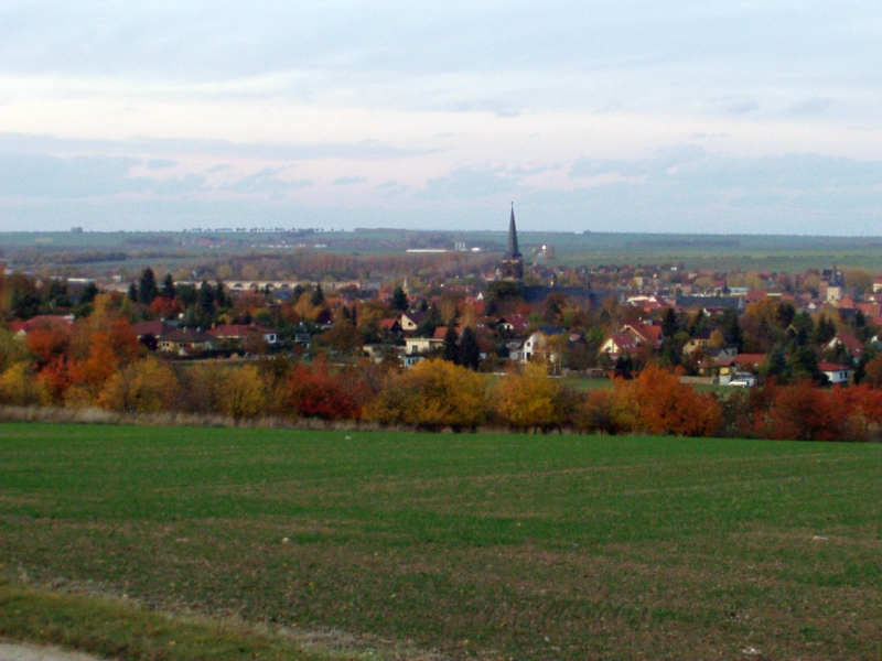 Picture of Aschersleben, Germany.